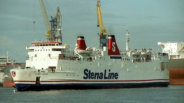 The "Stena Antrim" at Belfast The “Stena Antrim” (now sold and operating in the Mediterranean) arriving at Belfast with the 15.15 sailing from Stranraer.